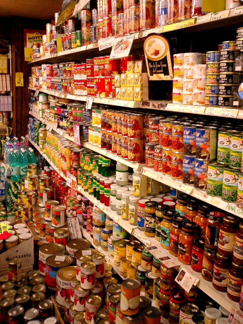 Canned foods, in the grocery store for the non-Japanese people in Kitano, Kobe, Japan. They are mostly the import things from overseas.